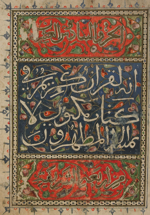 Panel containing excerpt from Quran chapter 56 (in the central space)